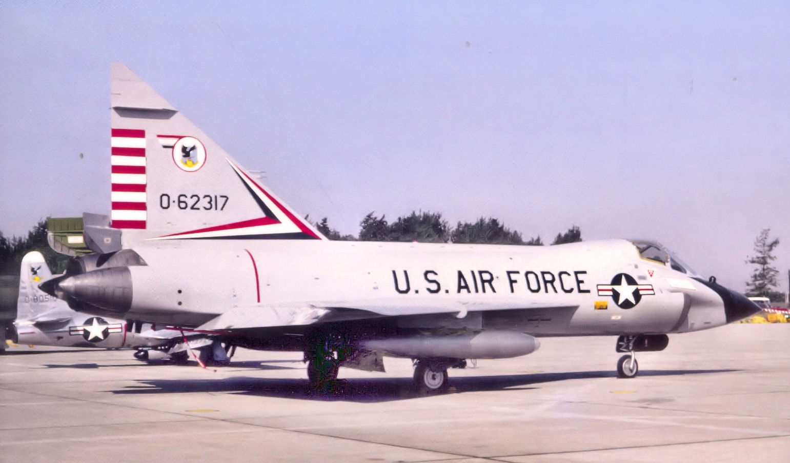 USAF Air Defense Weapons Center Convair TF-102A-38-CO Delta Dagger 56-2317 Tyndall AFB, Florida, November 1968 (Photo taken at Andrews AFB, Maryland) 56-2317 converted to PQM-102A target drone however was never expended. Was placed on static display with Yankee Air Force Museum, Ypsilanti, Michigan